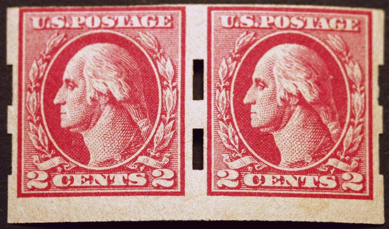 US Postage stamps w/ Schermack perforations